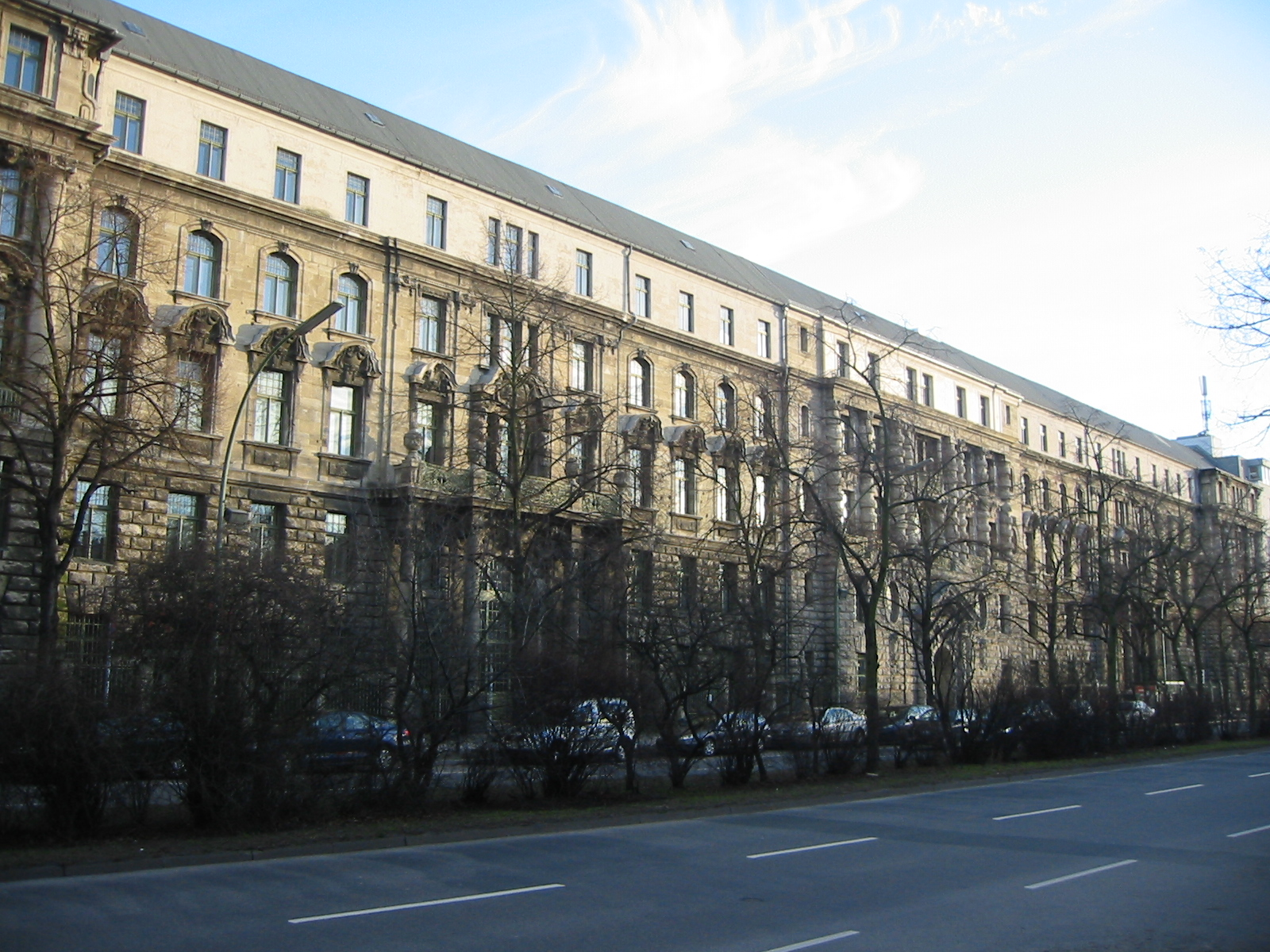 Former Victoria Building in Berlin-Kreuzberg (Germany)